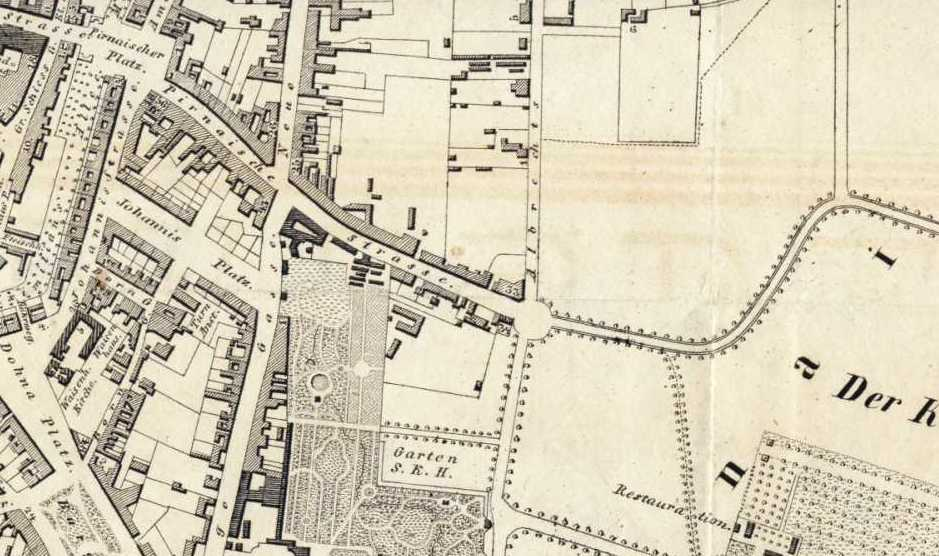 detail of a city map of Dresden, a section of the formerly suburb Pirnaische Vorstadt, 1863